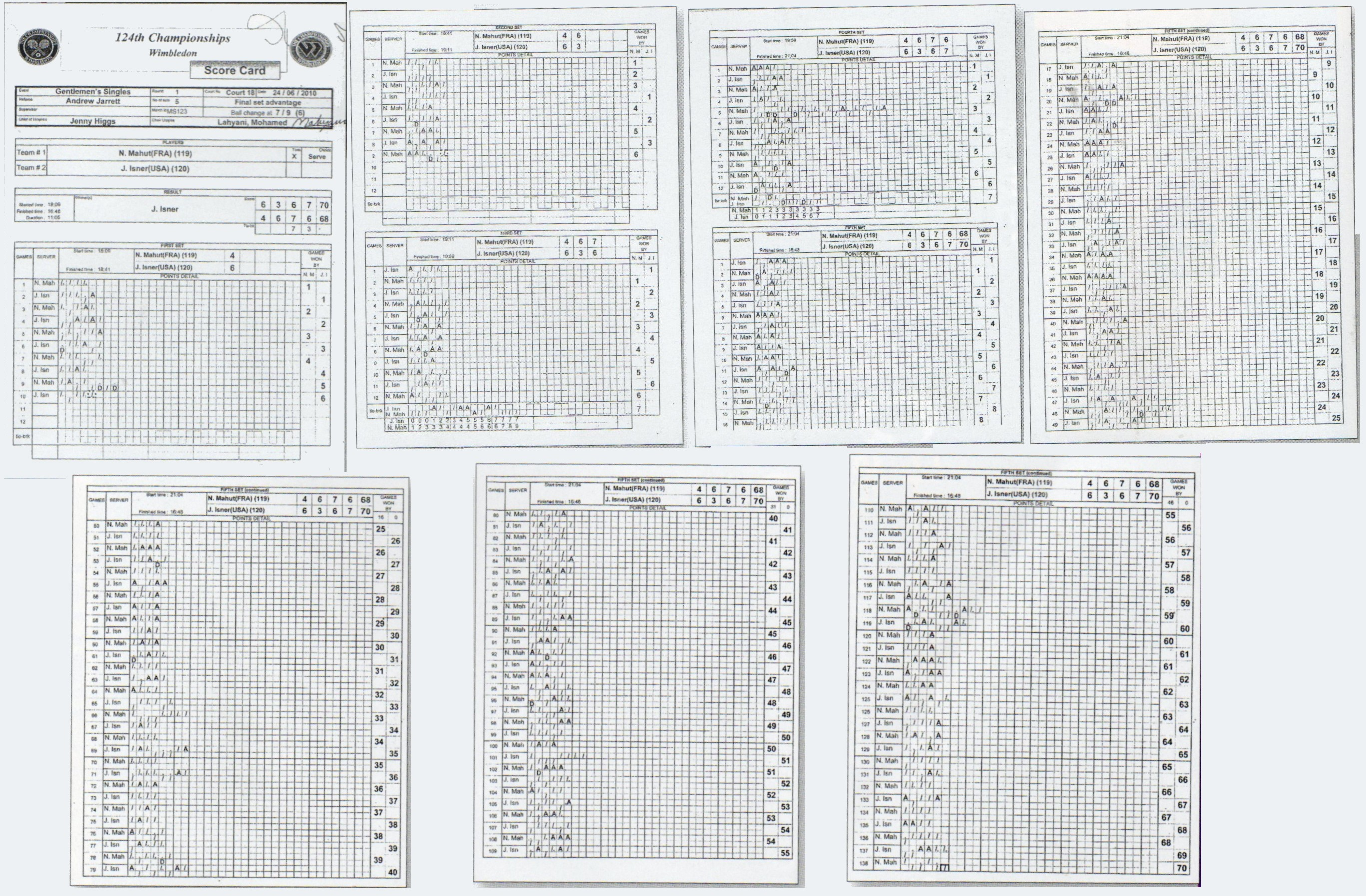 Copy of the 7-pages score card of the Isner-Mahut match in Wimbledon 2010.